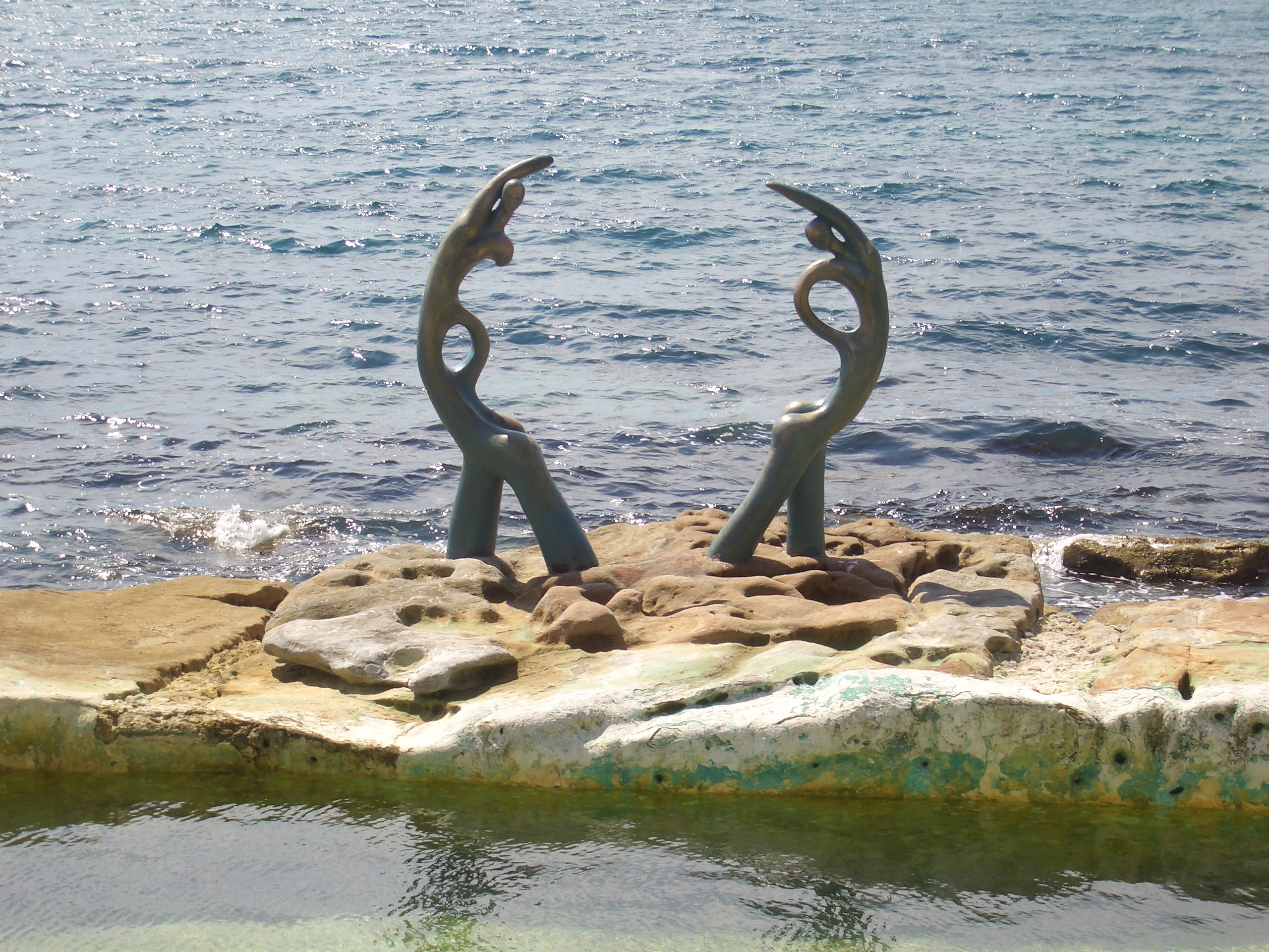 Fairy Bower, Manly